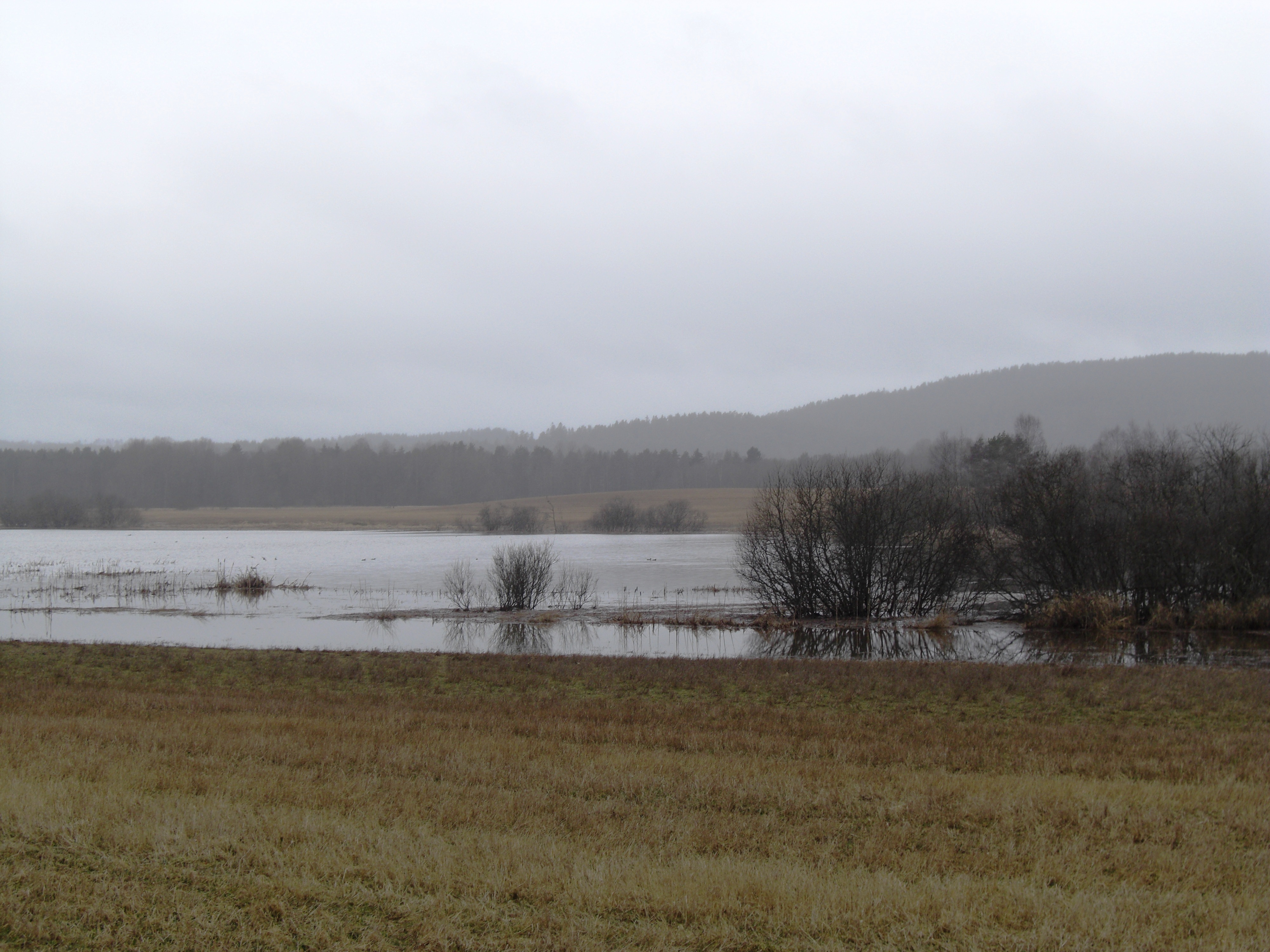 Hæra Natural Resort